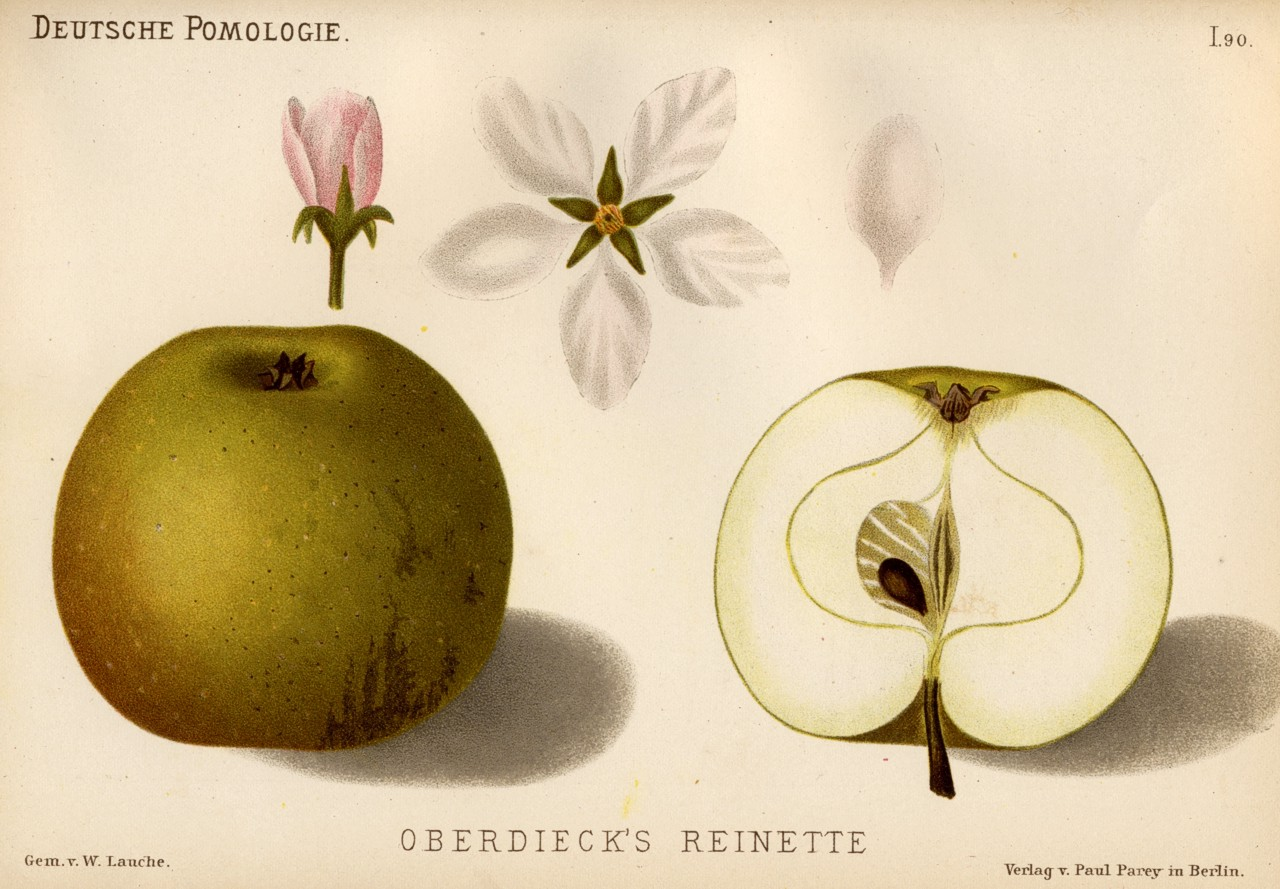 Illustration 90 from Deutsche Pomologie - Aepfel Apple cultivar shown: Oberdieck's-Reinette